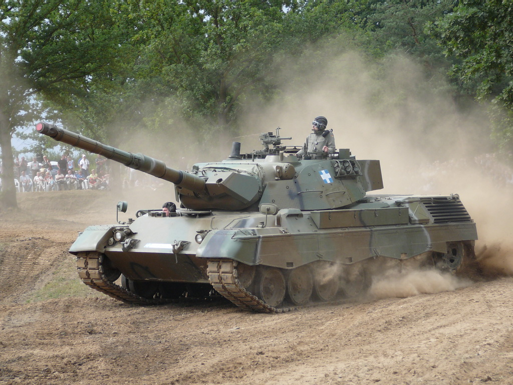 Former Greek Leopard 1V during 7th 'Tank Day' in Military Technical Museum Lešany.